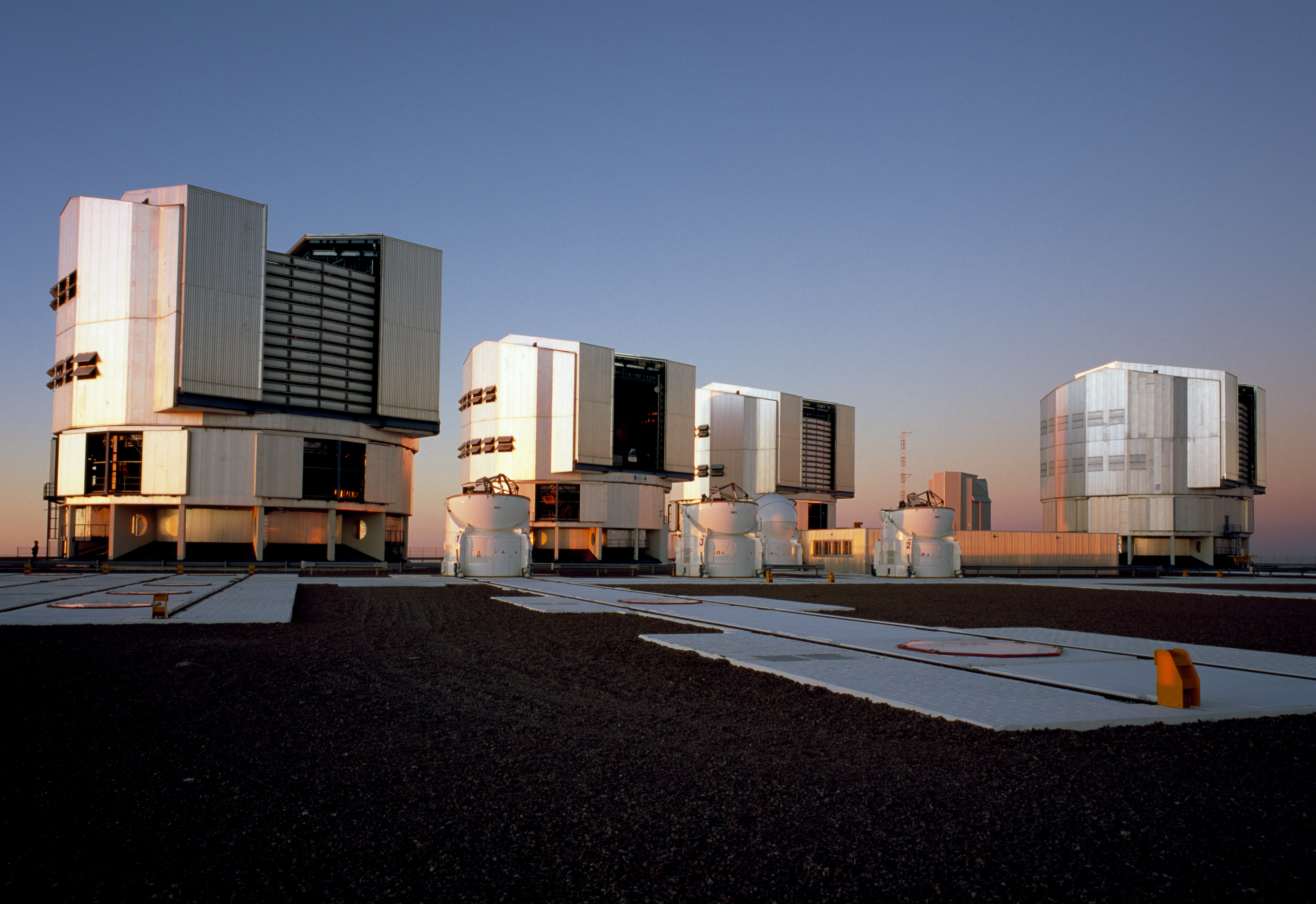 The Paranal platform photographed in January 2007. The four main Very Large Telescope (VLT) units can be seen, as well the four auxiliary telescopes.